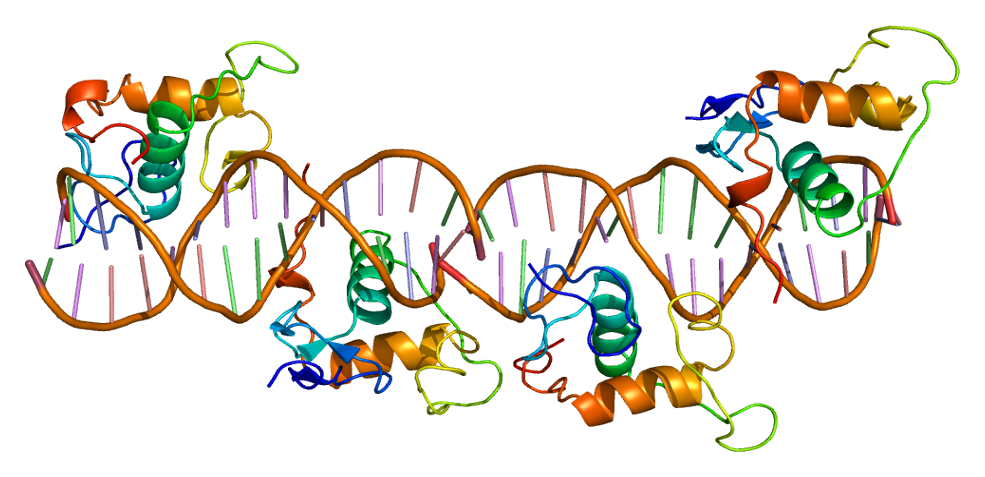 Structure of the RXRB protein. Based on PyMOL rendering of PDB 1by4.